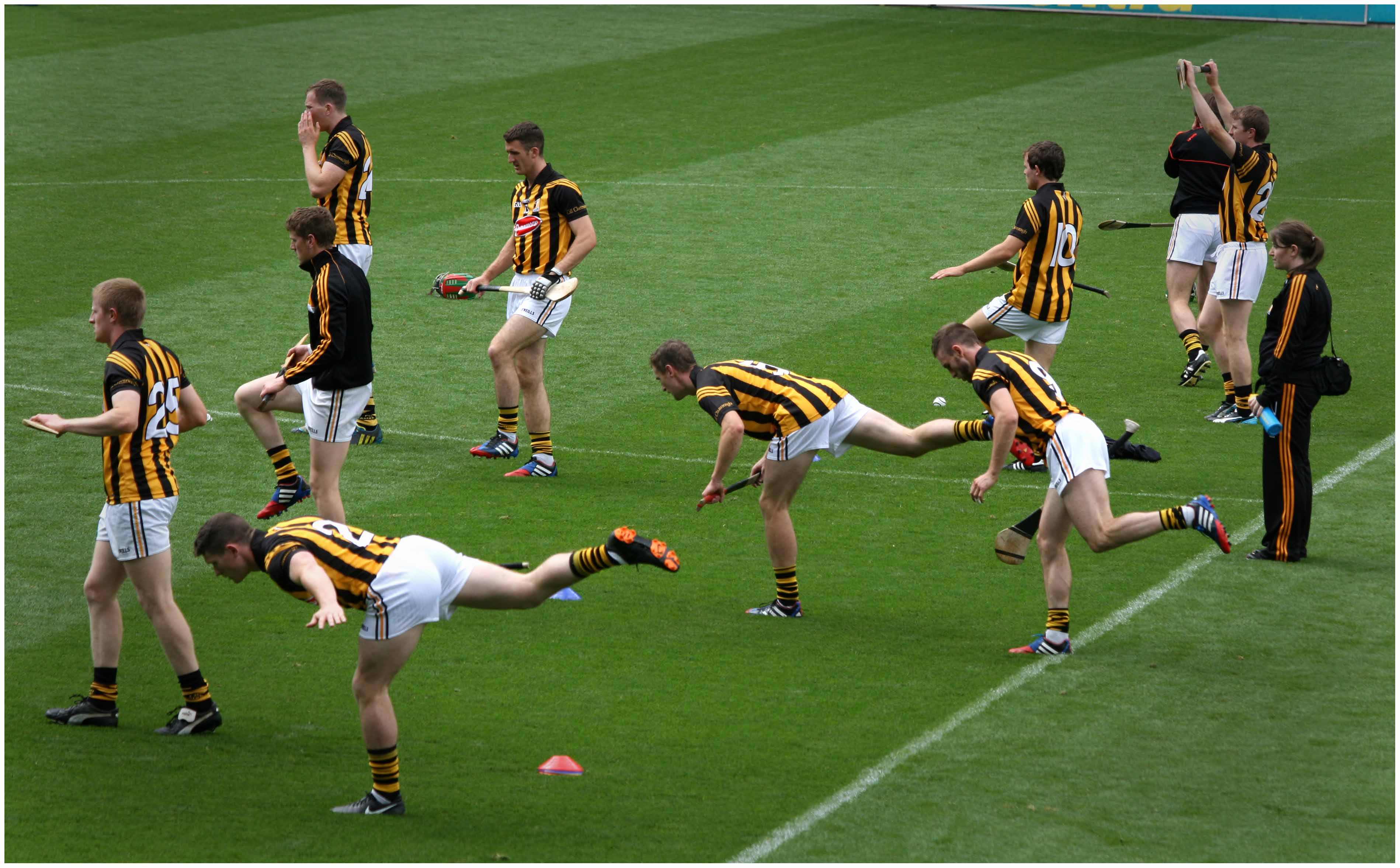 Kilkenny senior hurlers warm up before yesterday's All-Ireland semi-final